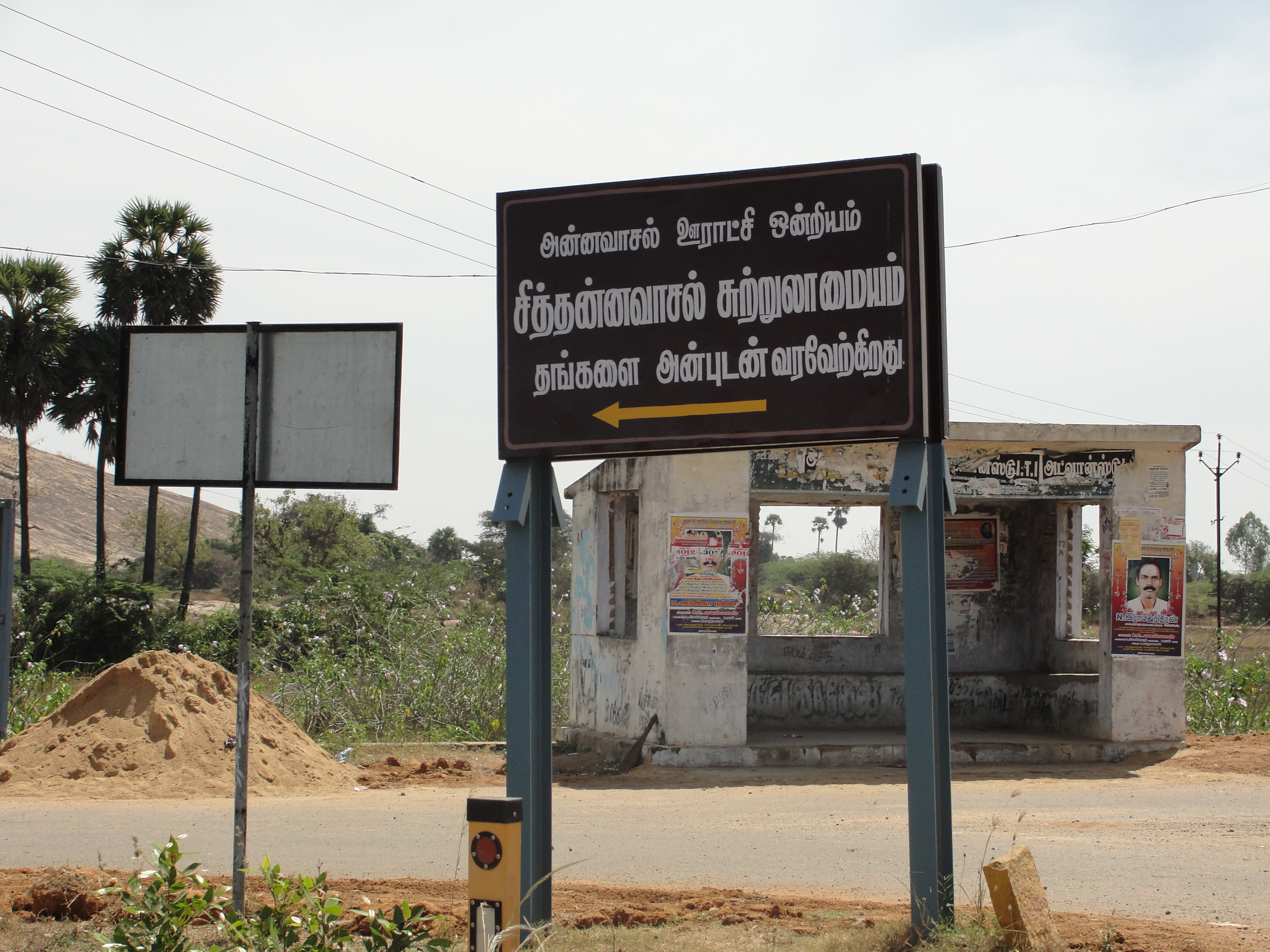 entrance board in Sittanavasal